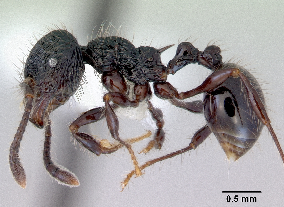 Profile view of ant Perissomyrmex snyderi specimen casent0172276.